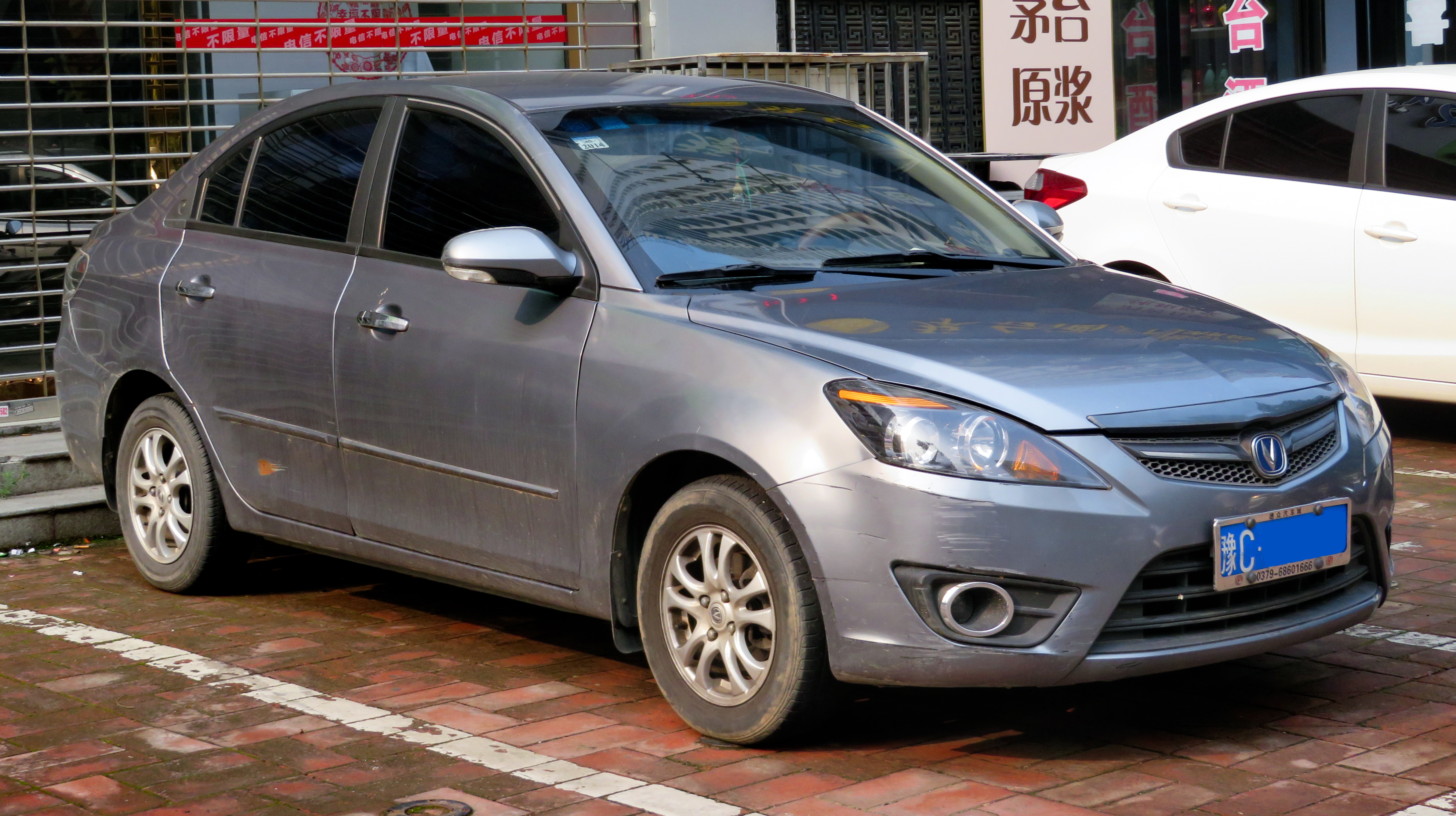 A 2012 Chang'an Alsvin facelift photographed in Xigong District, Luoyang, Henan province, China